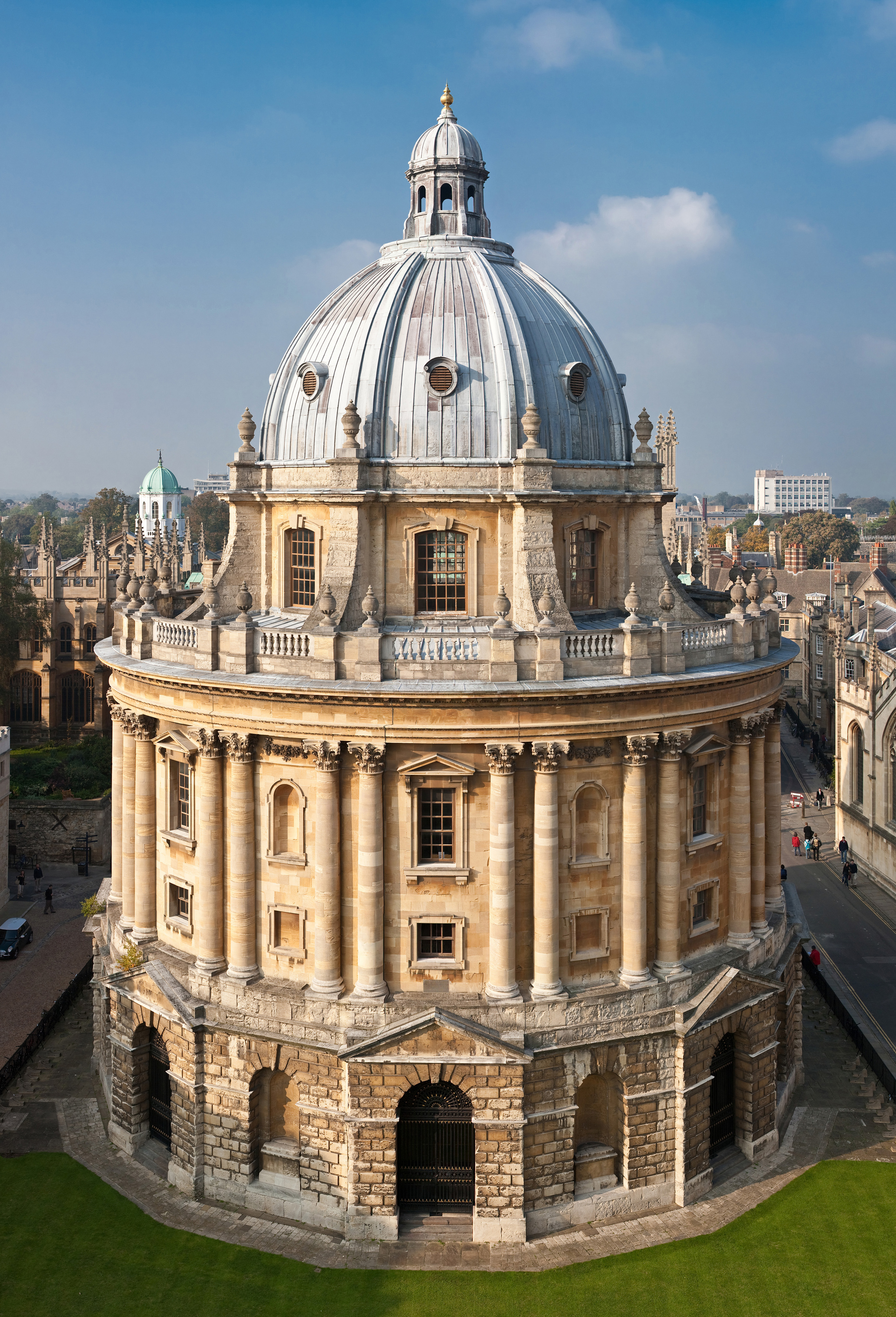 The Radcliffe Camera in Oxford, England as viewed from the tower of the Church of St Mary the Virgin. This is a 10 (2x5) segment panorama taken by myself with a Canon 5D and 70-200mm f/2.8L at 70mm.